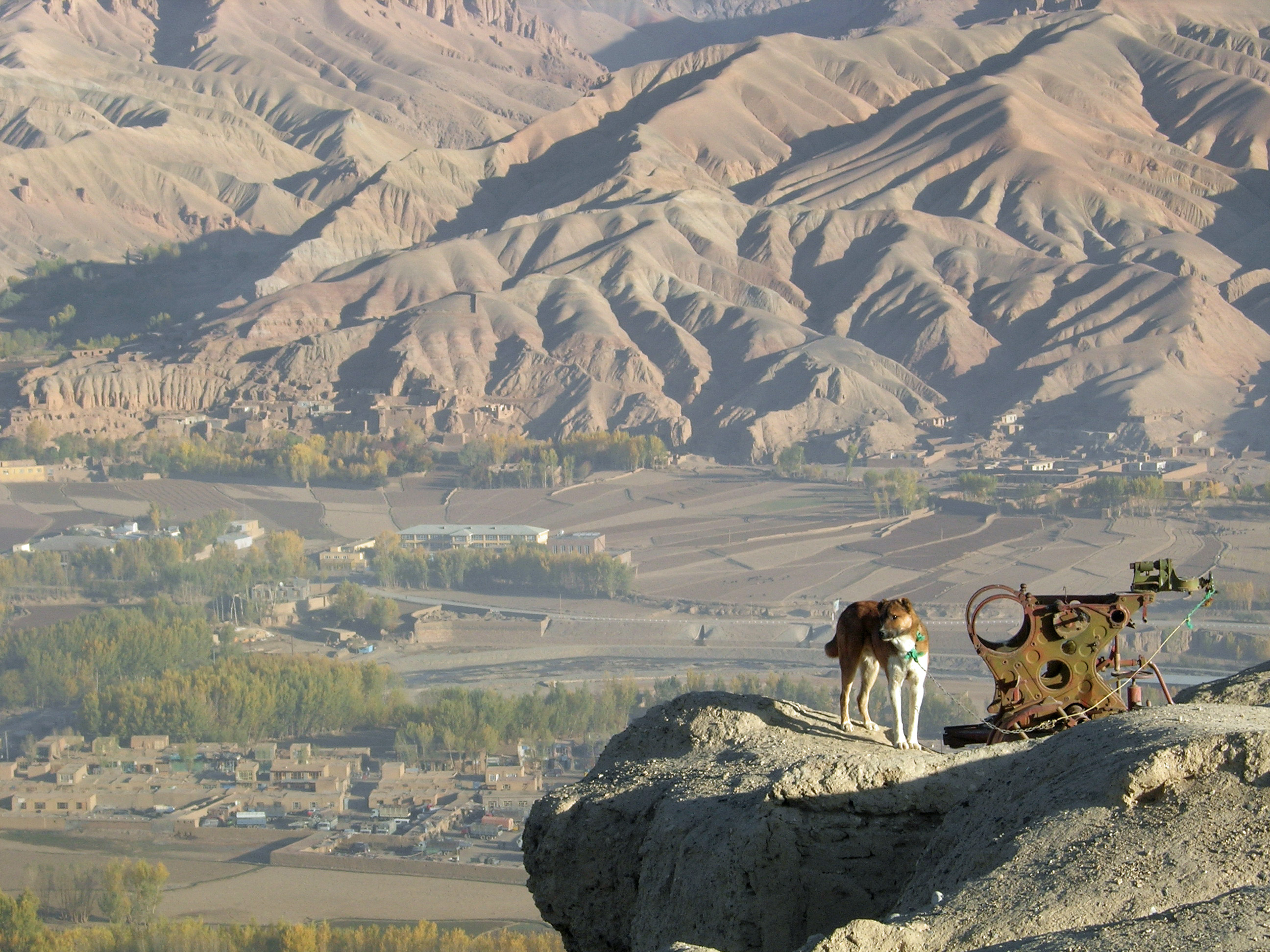 More from Afghanistan on my site contained in these posts. CC